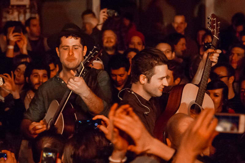 Augustines at the Bowery Ballroom in NYC 3/3/14